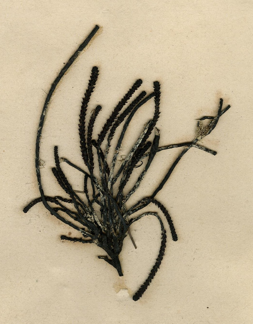 PRESERVED_SPECIMEN; Individual Count: 1; Type status:; Isis encrinula Lamarck, 1815; ; Identified by